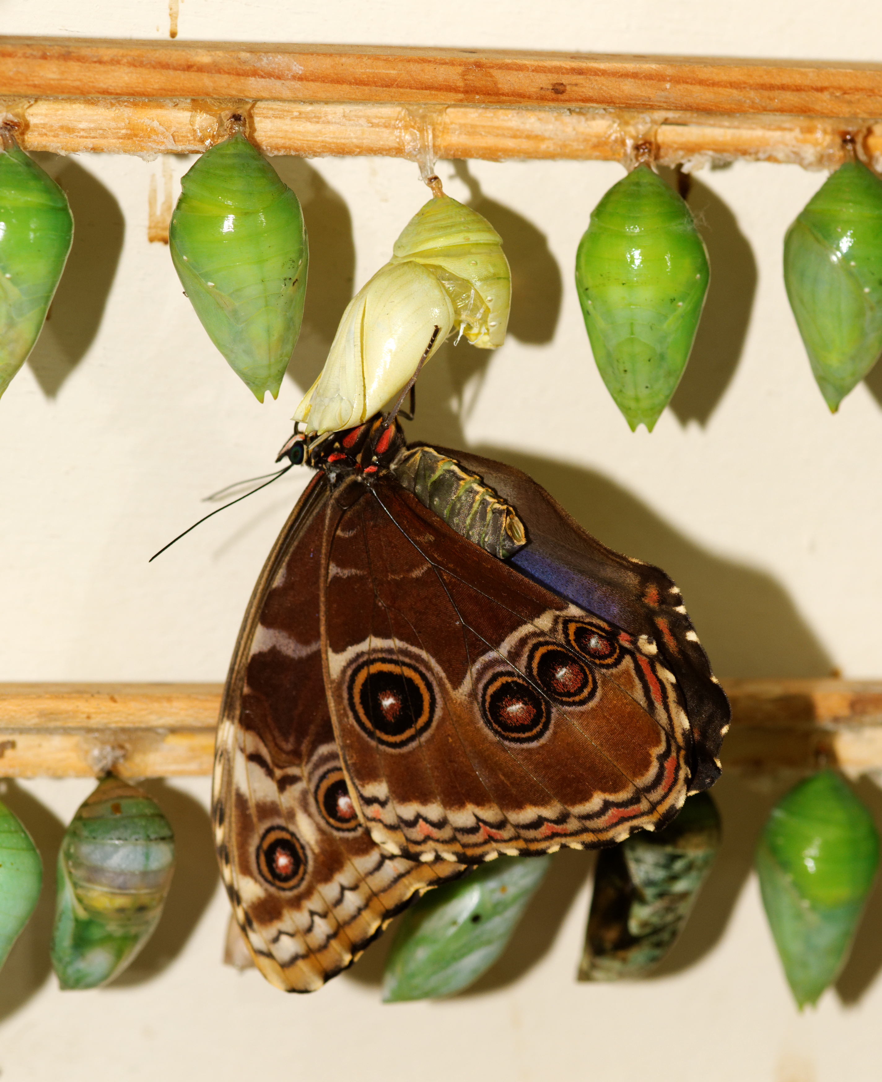 This photograph was taken with a Nikon D300 Morpho (Morpho sp.) sortant de sa chrysalide vu au Jardin des papillons, à Hunawihr (Alsace).